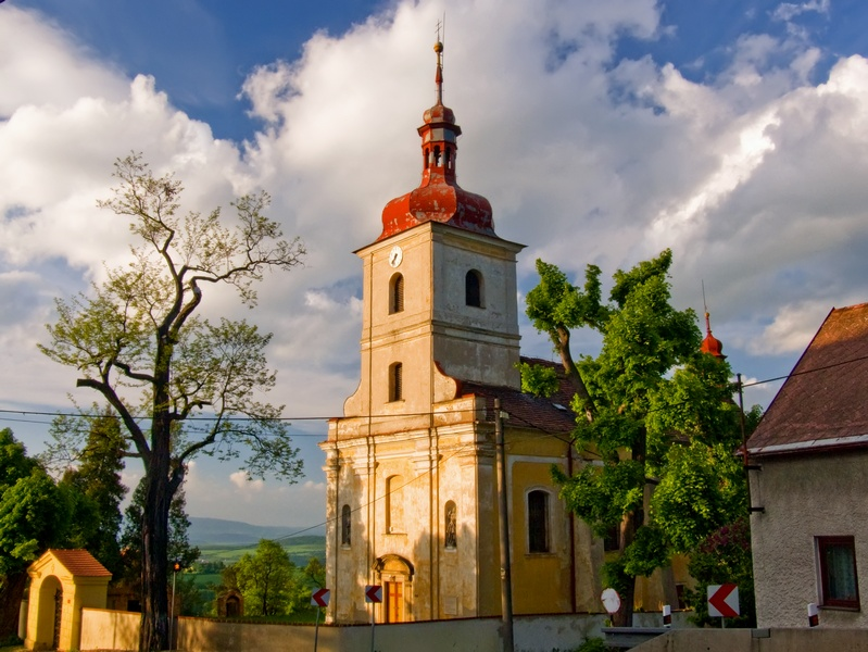 Saint Catherine church in Bořislav, Teplice District, Czech Republic